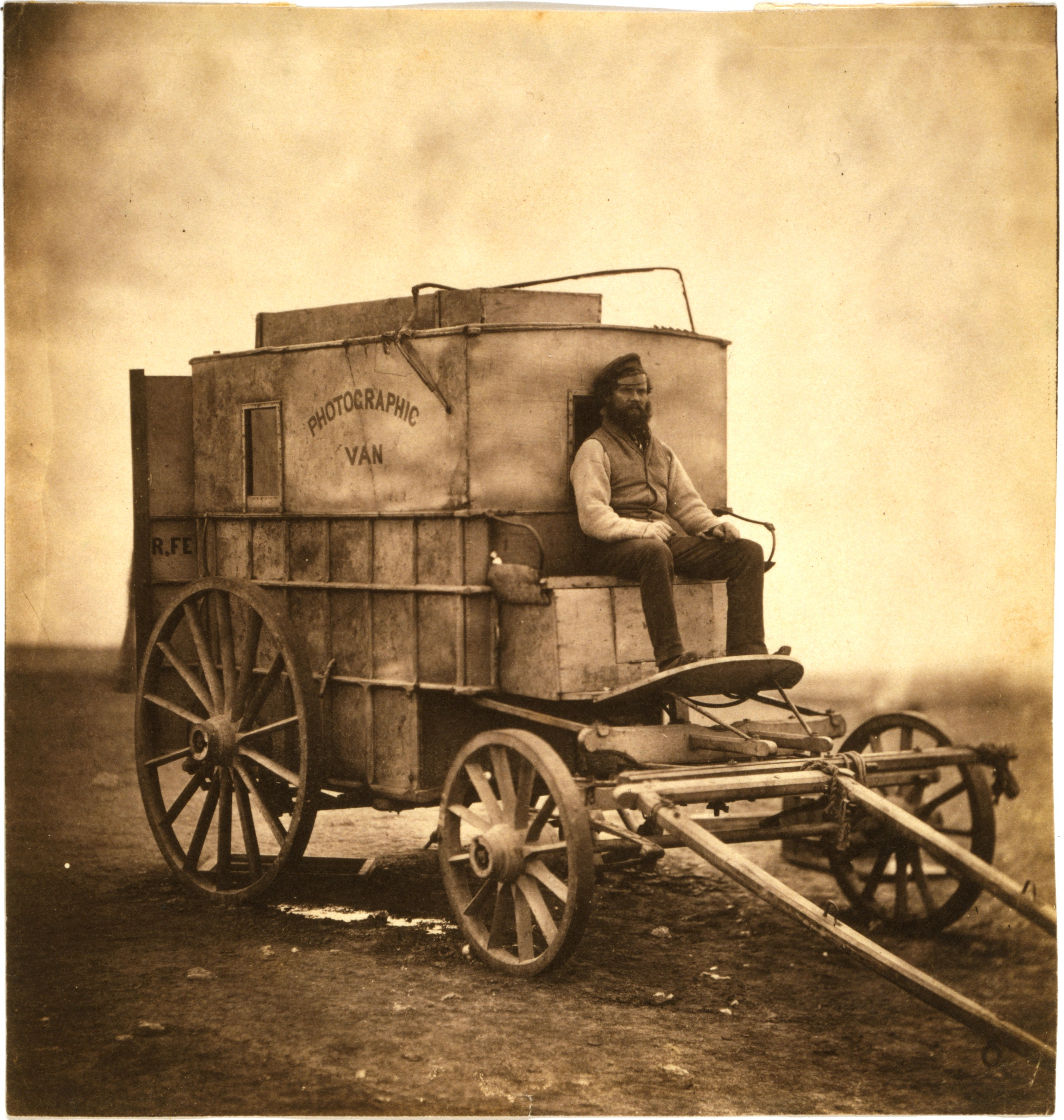 The artist's van. Marcus Sparling, full-length portrait, seated on Roger Fenton's photographic van. 1 photographic print; A size; salted paper; 17.5 × 16.5 cm.